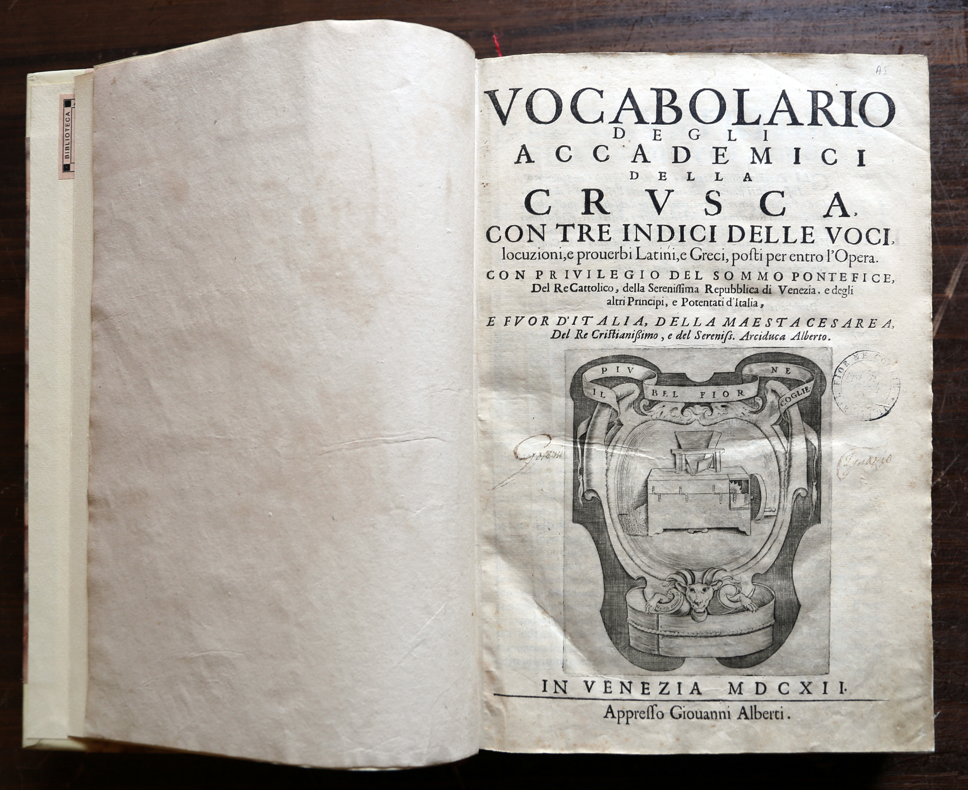 Accademia della Crusca Library: Accademia della Crusca Vocabolario degli Accademici della Crusca con tre indici delle voci, locuzioni, e prouerbi latini, e greci, posti per entro l'opera. In Venezia : appresso Giovanni Alberti, 1612. [28], 960. [104] p. ; 2° (36 cm) Prima impressione del Vocabolario. Il Vocabolario degli Accademici della Crusca fu stampato a Venezia e uscì nel 1612, suscitando immediatamente grande interesse e altrettanto accese dispute riguardo ai criteri adottati; in particolare, a molti non piacque l’aperto fiorentinismo arcaizzante proposto dal Vocabolario, che comunque rappresentò per secoli, in un’Italia politicamente e linguisticamente divisa, il più prezioso e ricco tesoro della lingua comune, il più forte legame interno alla comunità italiana, quindi lo strumento indispensabile per tutti coloro che volevano scrivere in buon italiano. Ebbe grande fortuna in tutta Europa e divenne modello di metodo lessicografico per le altre accademie europee nella redazione dei vocabolari delle rispettive lingue nazionali.